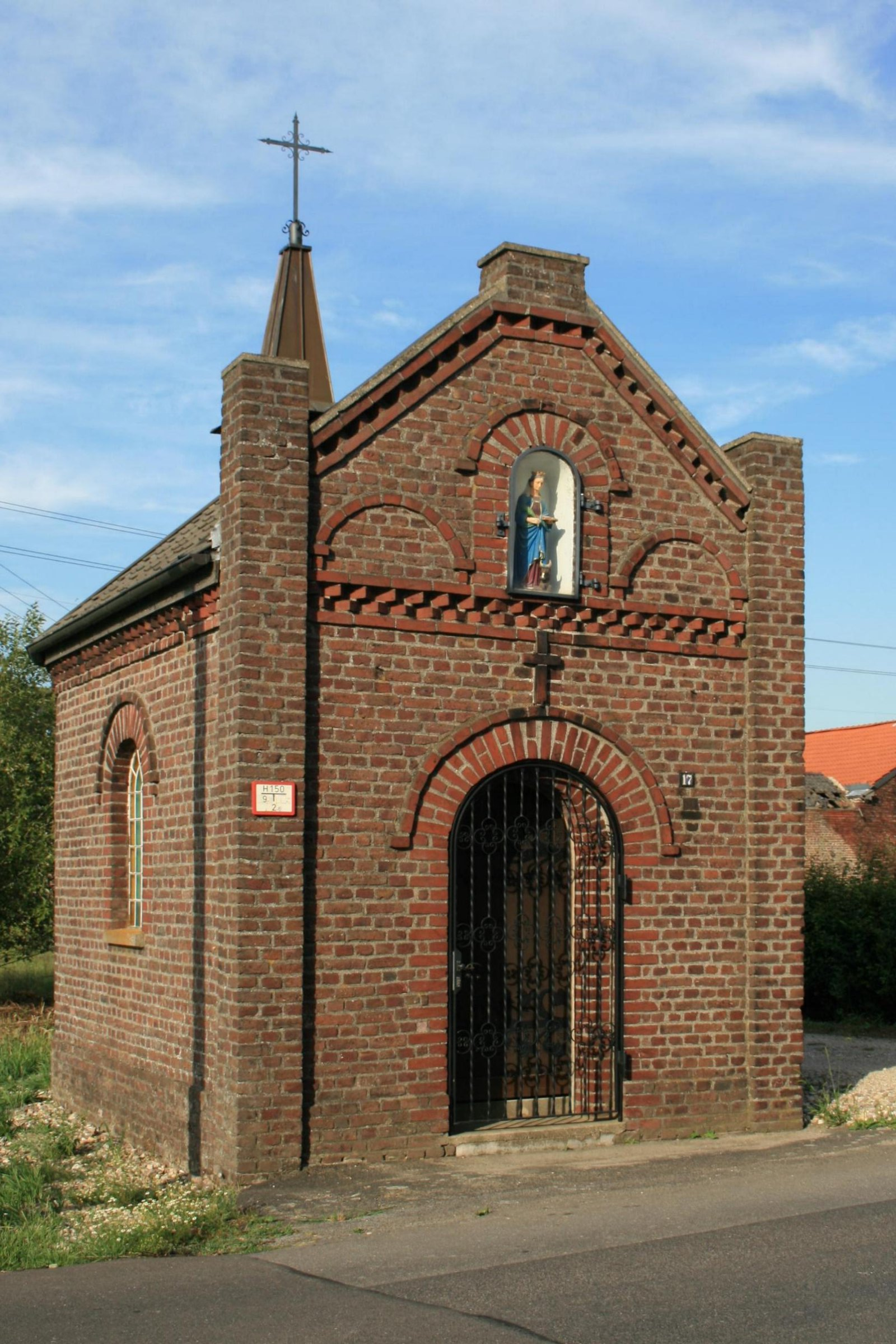 Cultural heritage monument No. P 004 in Mönchengladbach